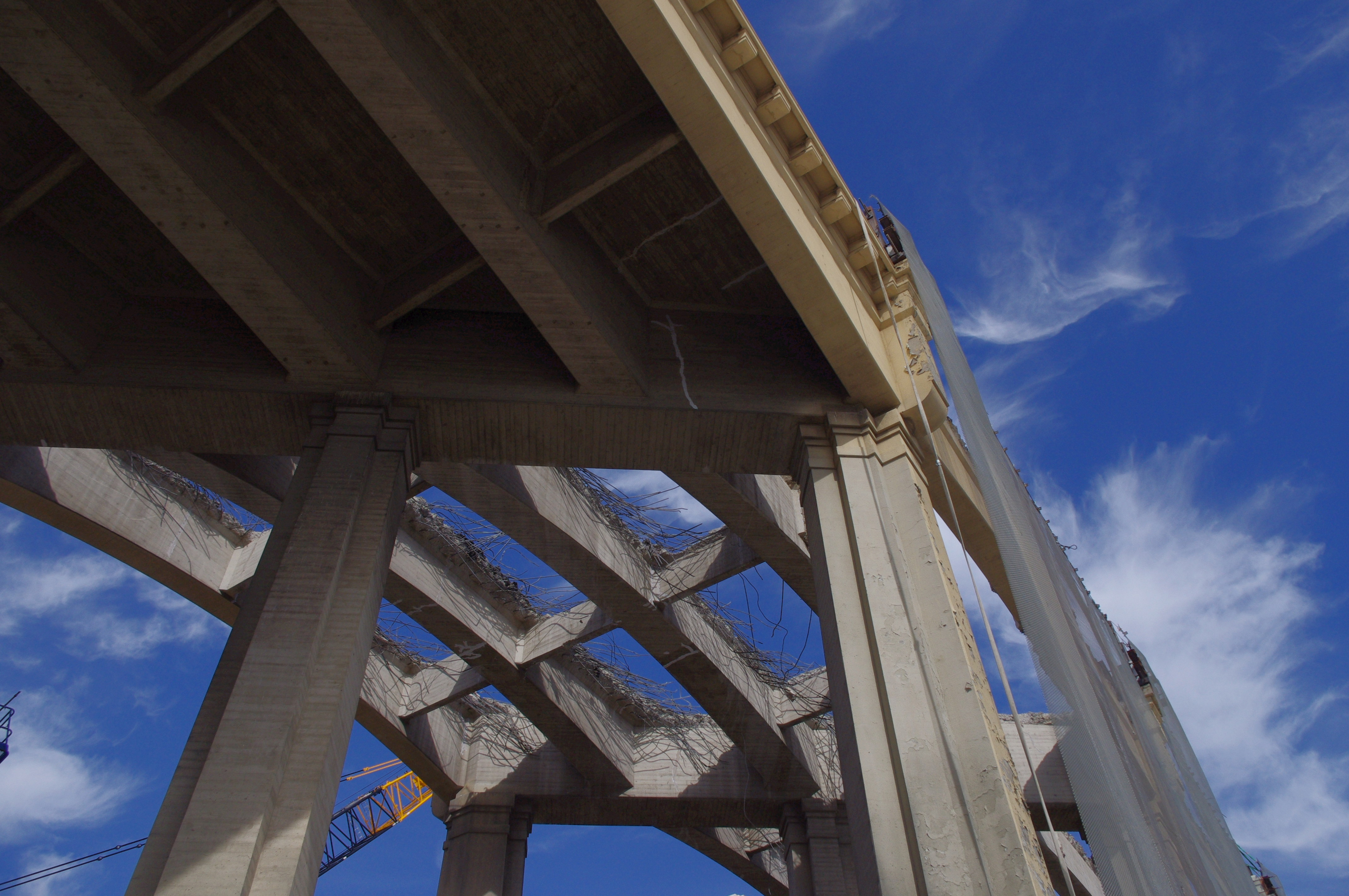 Looking through the cloud filled blue Southern Californian sky through the remains of the iconic Sixth Street Viaduct, just east of the Los Angeles River.